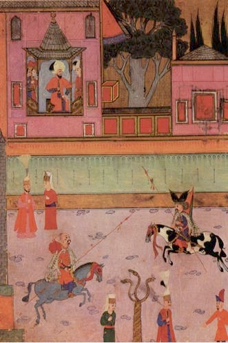 Miniature: parade of two riding Gazi (veterans from Rumelia) in front of Sultan Murat III.